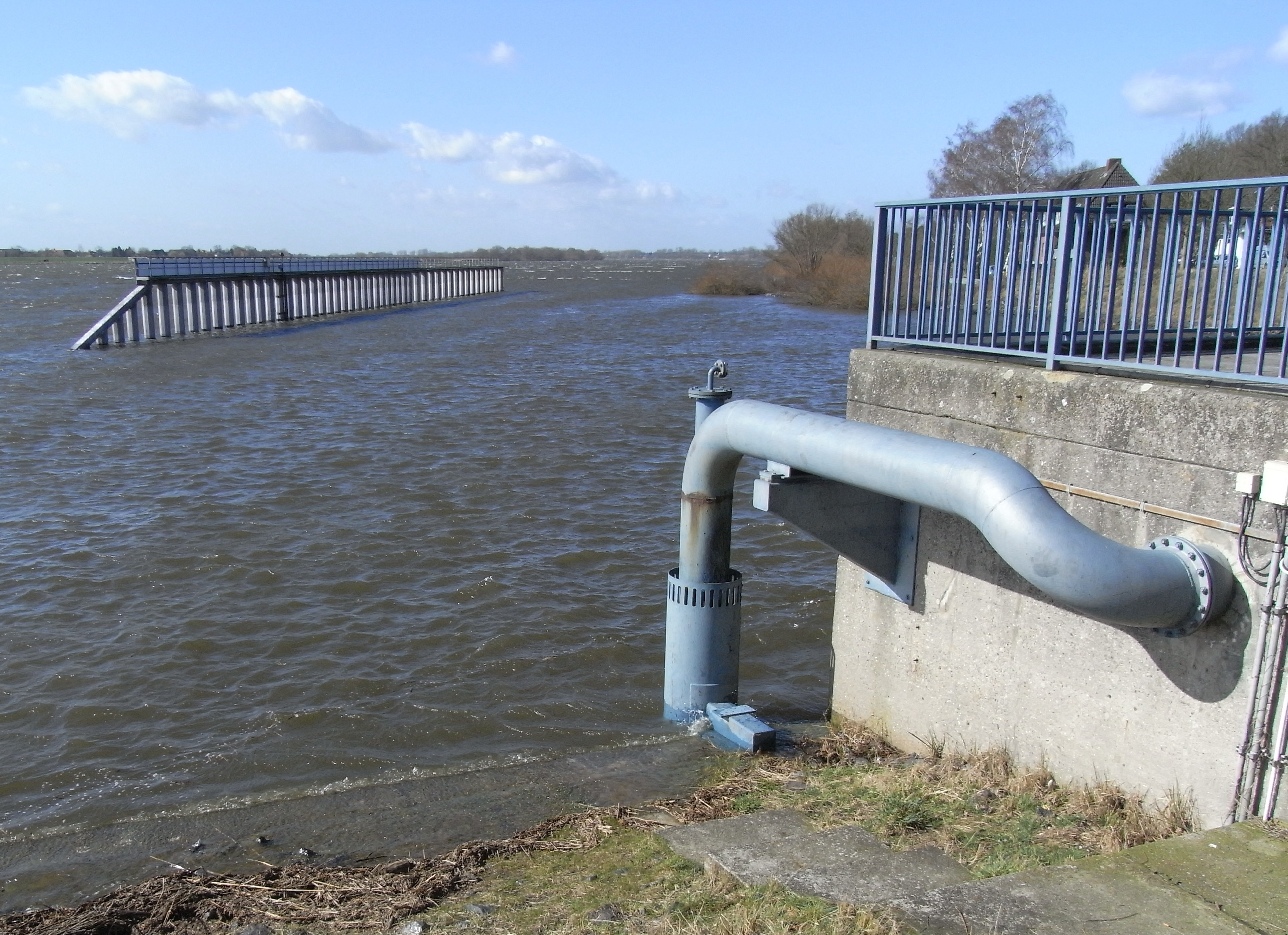 Outflow building for the return of the cooling water into the Elbe river of the Krümmel nuclear power plant in Schleswig-Holstein, Germany.